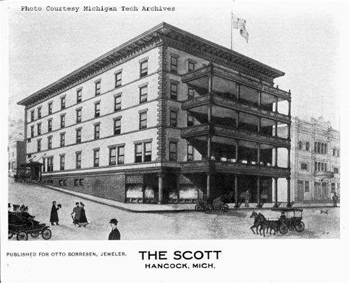 Pencil drawing postcard of the Hotel Scott in Hancock, Michigan sometime between its construction in 1906 and a change in appearance in the 1920s. (It is most likely closer to 1906 due to the lack of electric poles.) To the right is the Kerredge Theatre which burned down in 1959.